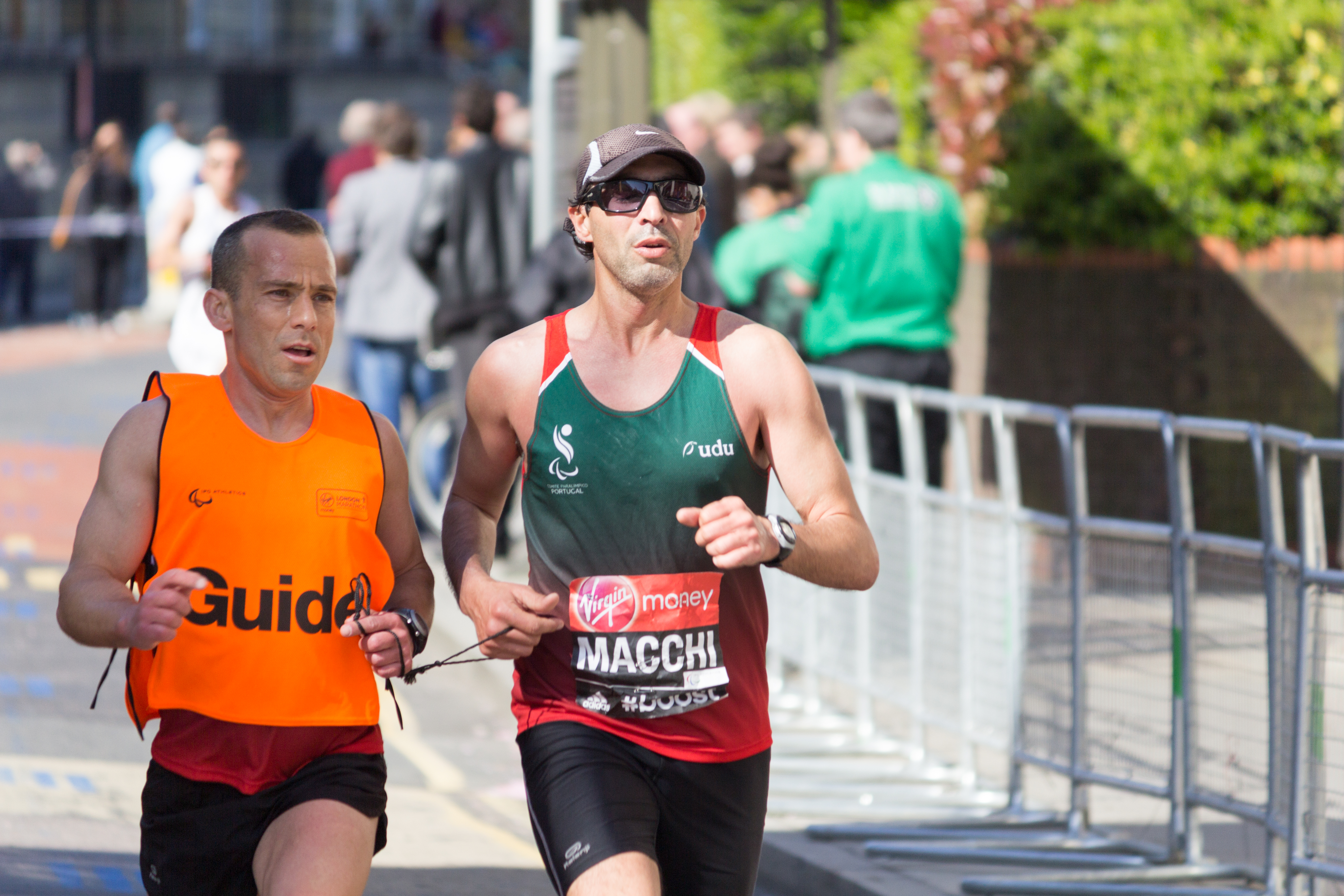 The 2014 London Marathon - IPC World Cup - Gabriel Macchi, competing in the T11-T12 category.